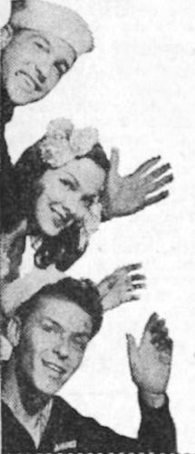 Promotional image for film Anchors Aweigh (19450.